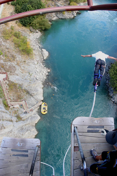 This photo of Mombas was commissioned by him Bungee jumping off the KAWARAU Bridge at Queenstown New Zealand. Uploaded by Mombas 05:56, 24 April 2007 (UTC)